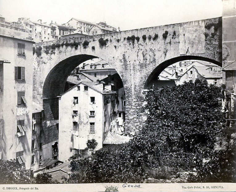 Celestino Degoix (operating from circa 1860 until 1890), "Genoa".